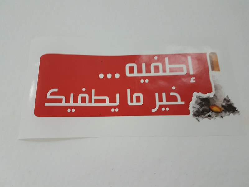 Anti-smoking sticker in Tunisian Arabic